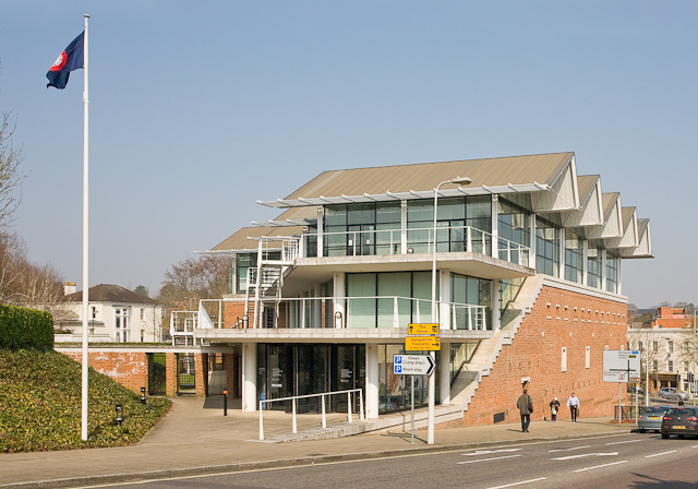 Hampshire Record Office, Sussex Street. For a wider view see 1214337.